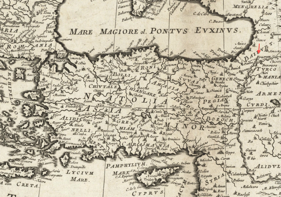 Detail of map: Turcicum imperium Author: Wit, Frederik de Publisher: Wit, Frederik de Date: 1680 Scale: [ca. 1:11,800,000]